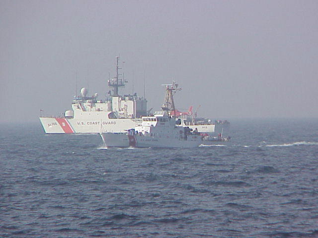 Two USCG cutters (Monomoy (foreground) and Spencer) searching for survivors from EgyptAir Flight 990.